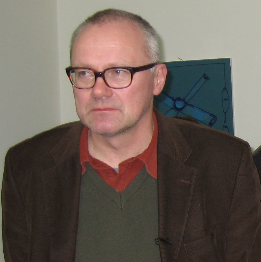 The german writer and artist Thomas Kapielski at his vernissage. Galerie Marlene Frei in Zürich, March 2006.